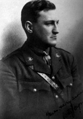 William Donovan Joynt VC (1889–1986) was an Australian recipient of the Victoria Cross during the First World War. The photograph is inscribed "yours very sincerely W. W. Joynt Jan 19".